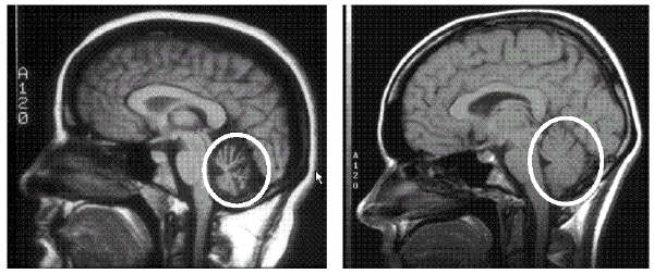 MRI scans of two brains. The brain on the left shows atrophy of the cerebellum in a person with cerebellar degeneration. The brain on the right shows a normal cerebellum.